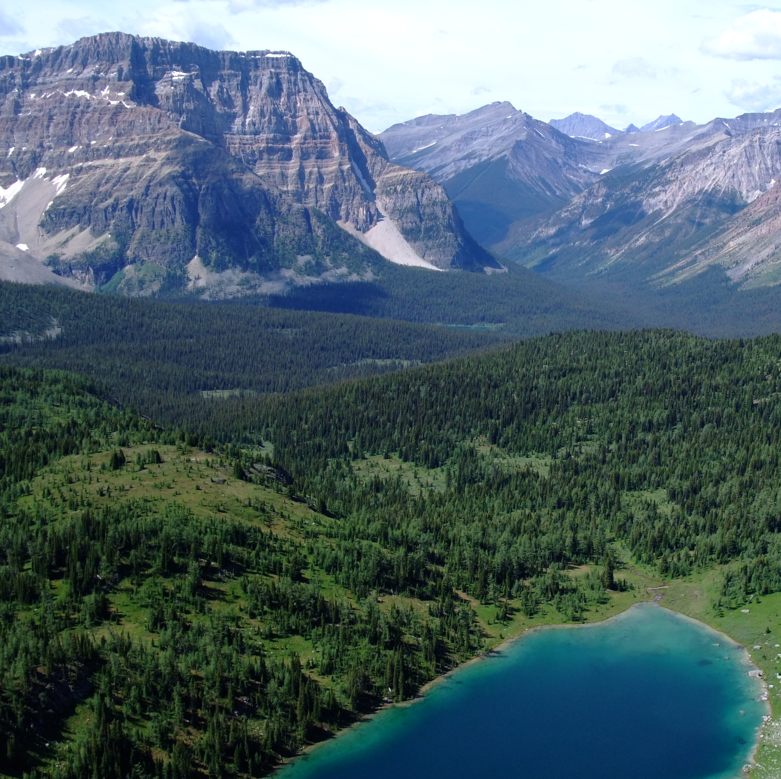 Elizabeth Lake with Mount Watson in Mount Assiniboine Provincial Park, Canada